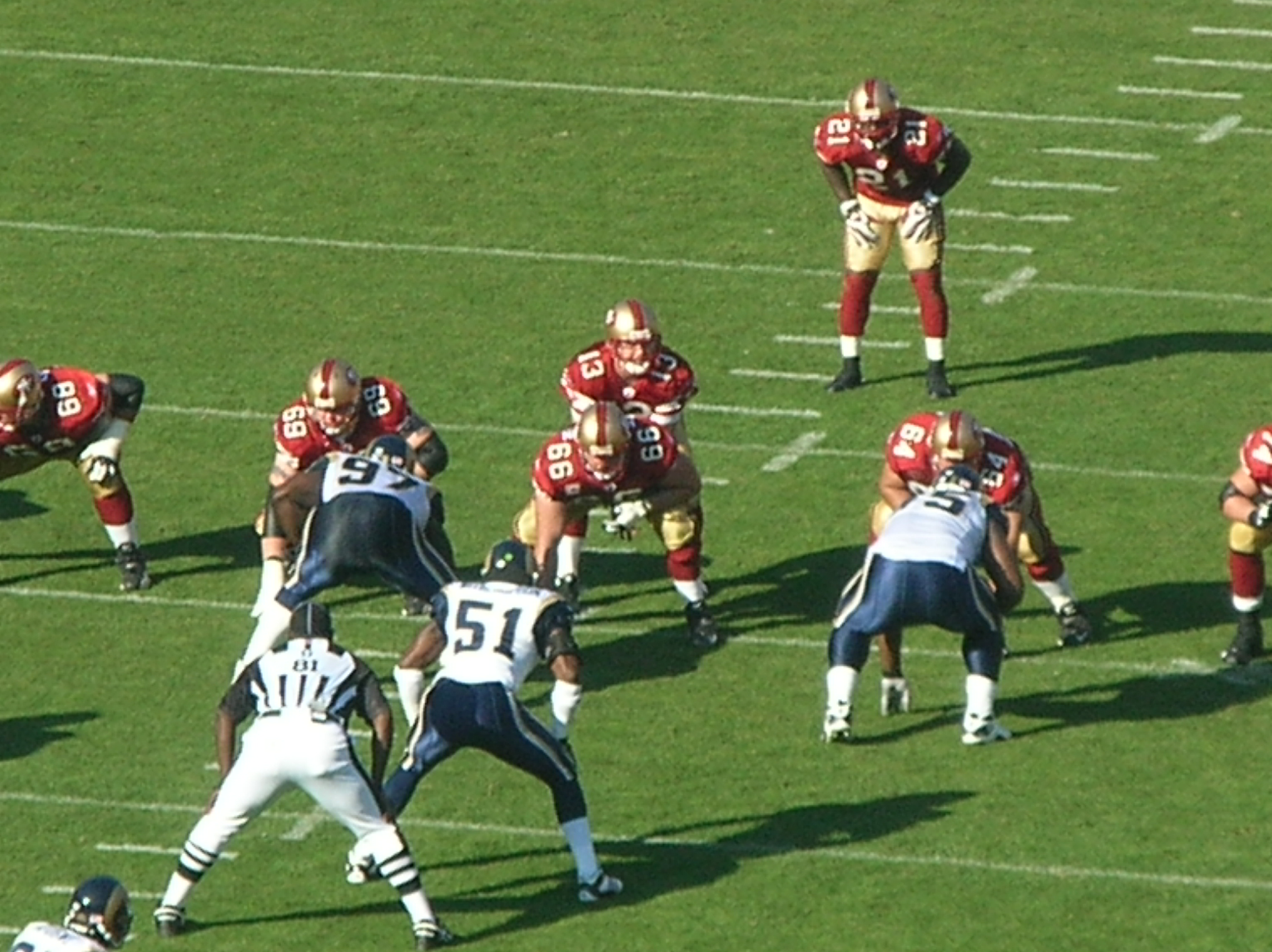 The San Francisco 49ers on offense during a home game against the St. Louis Rams. The 49ers won 35-16.